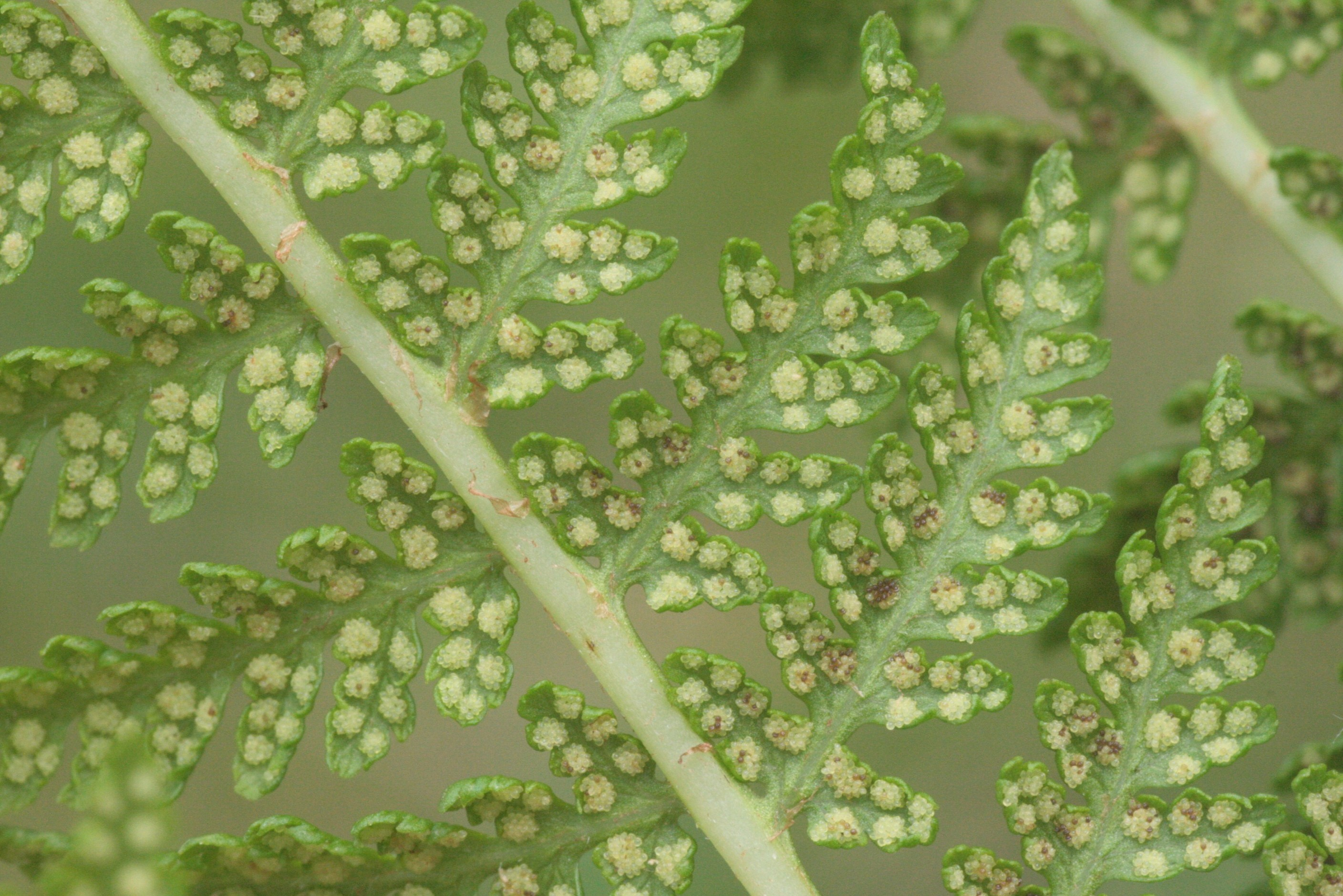 Athyrium distentifolium